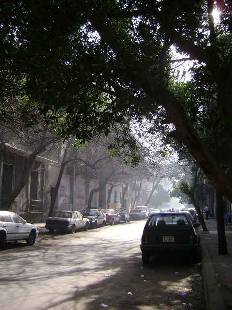 Taken from El-Gesr Street which means The Small Bridge Street, I still don't know why it's called by this name?!! Maybe because it is a linkage between two main streets there in this town Shubra But I like that street covred with old trees and th old houses there built in the 1940's and 1950's Weather today was Sunny and hot as it is the 2nd day of the heat wave in Egypt, temprature today reached the 37°C which is higher than the normal by 12°C View on black. More Clear More Obvious Explore: #116 on August 3, 2008